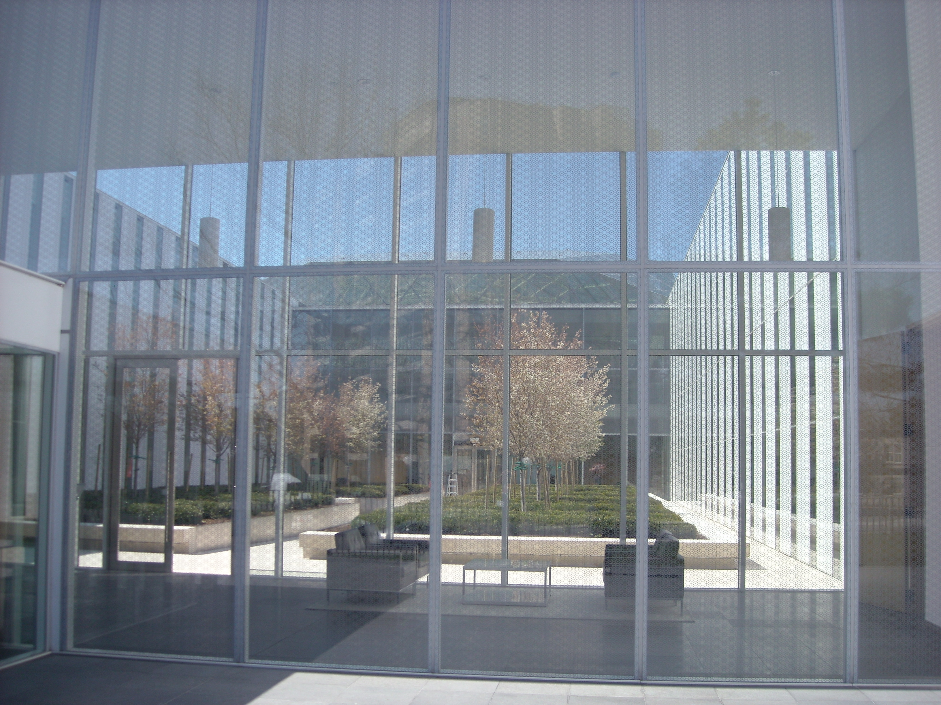 Side view of the Delegation of the Ismaili Imamat in Ottawa, Ontario.